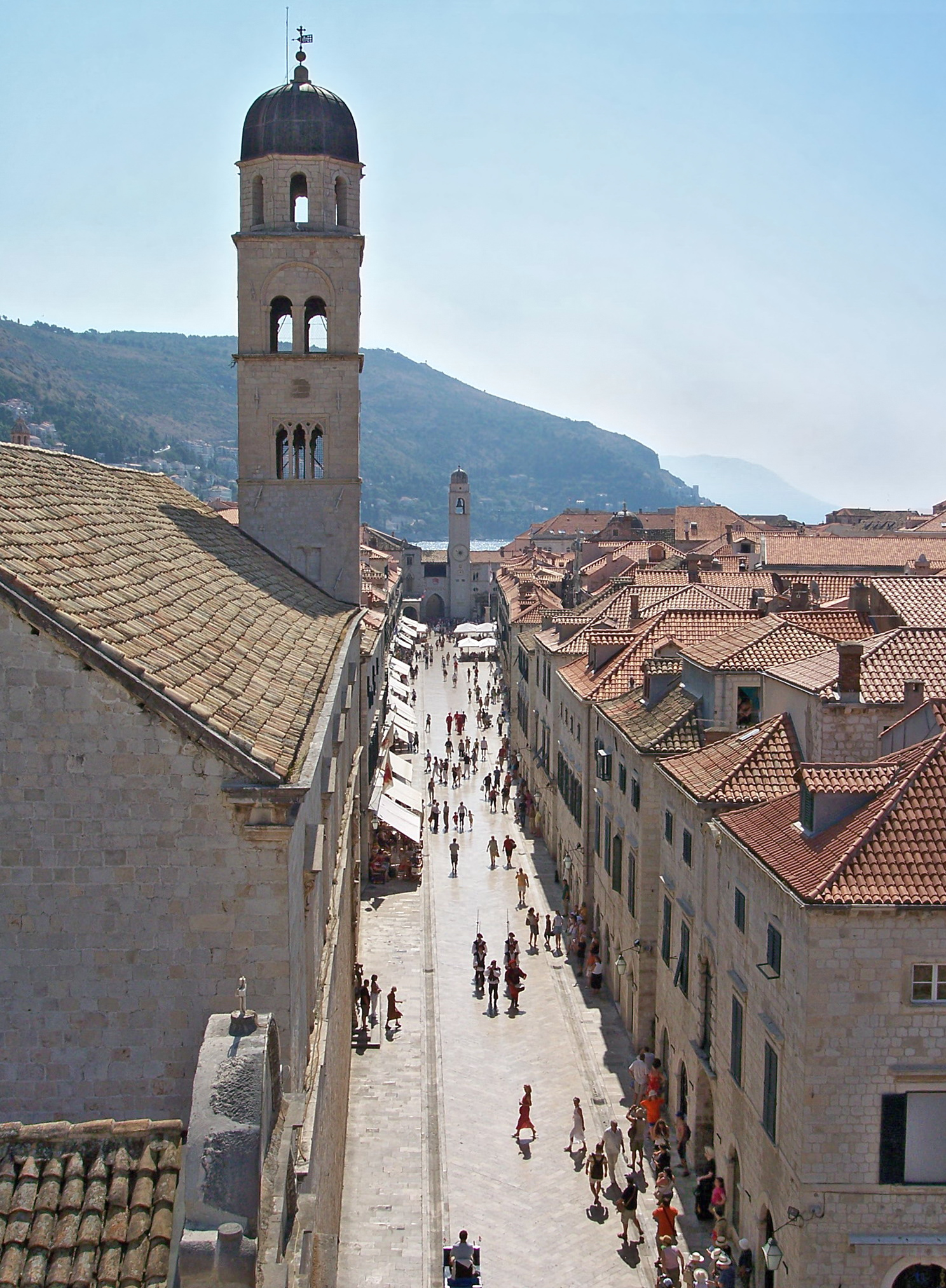 Stradun, main street of Dubrovnik old town in Croatia